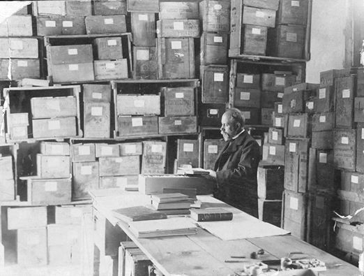 Florentino Ameghino in his archaeological deposit, around 1902.